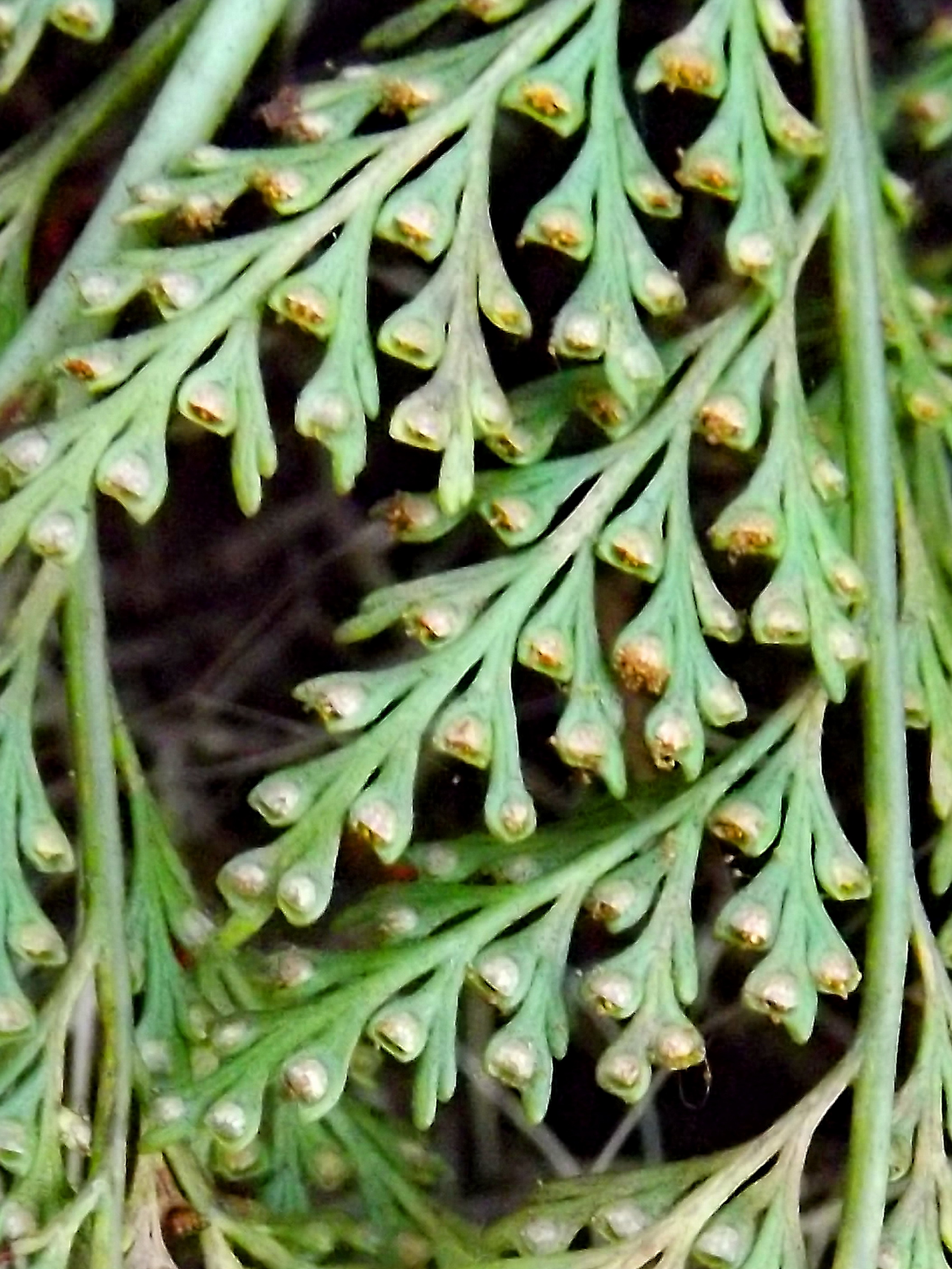 Davallia canariensis, La Palma (Spain), detail sori